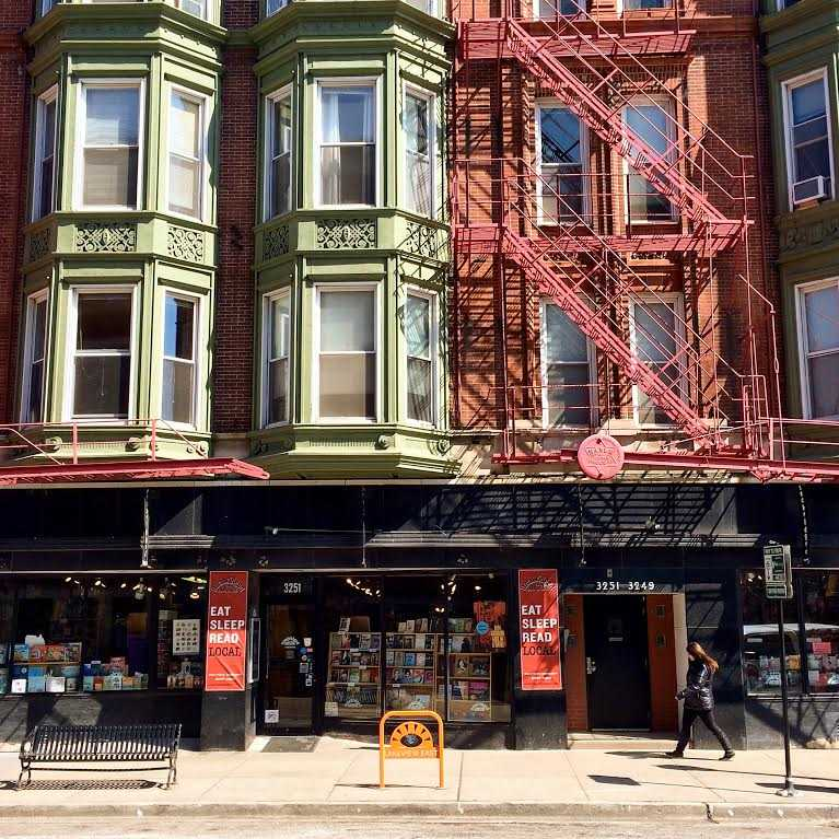 This is a photo of Unabridged Bookstore on N Broadway Avenue in Lakeview, Chicago, Illinois.